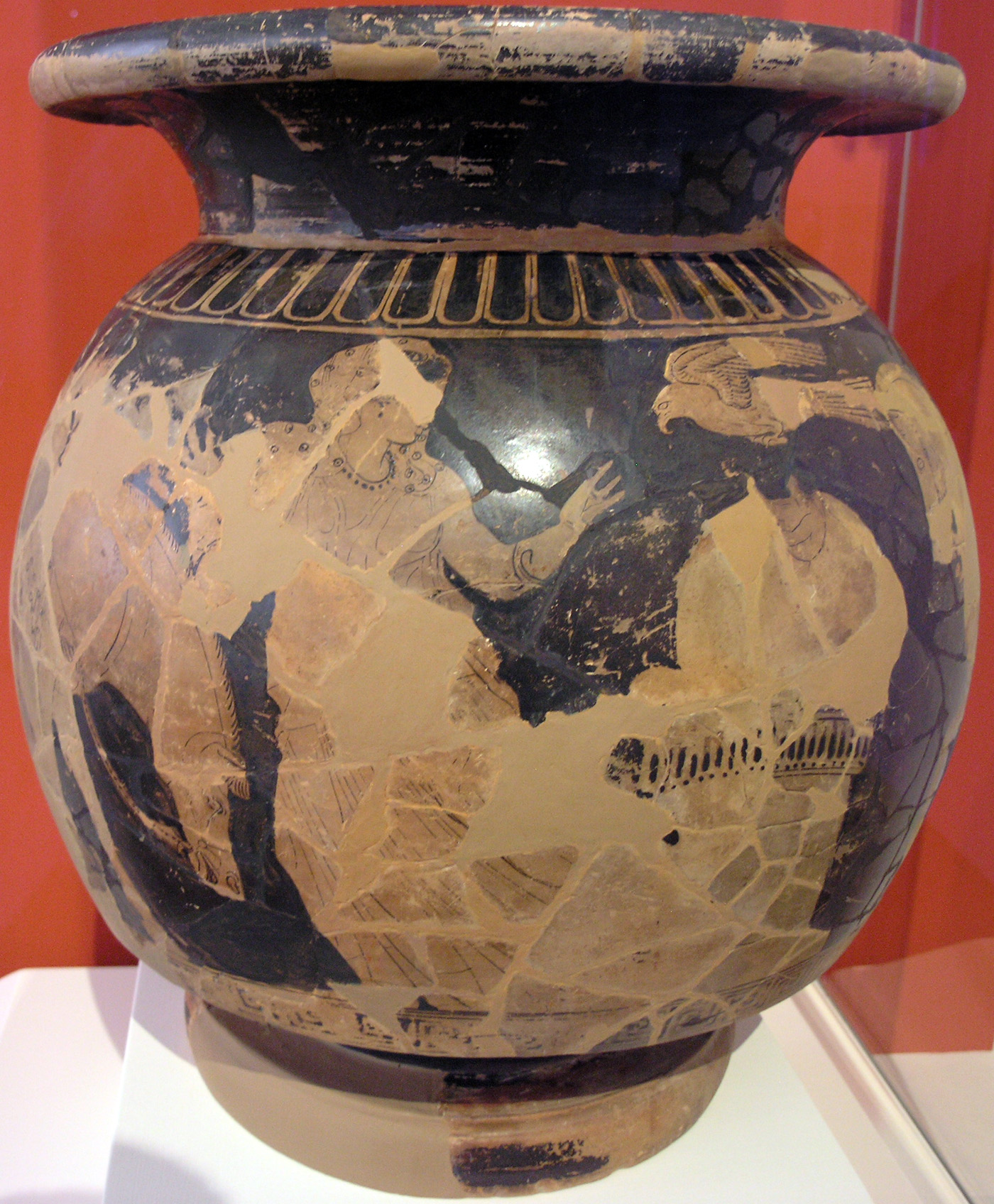 Huge votive red-figure kothon. The birth of Helen : she was born from an egg that was the fruit of the union between Nemesis and Zeus, brougth to Leda at Sparta by a shepherd of Hermes. The representation shows Helen coming out of the egg, which is on an altar. Leda jumps back, startled, while Zeus, in the form of an eagle, watches from on high. Helen's two brothers, the Dioskouroi Castor and Polydeukes, are present. Found in Analipsi (Vourvoura), Kynouria. Local workshop, last decade of the 5th c. BC.